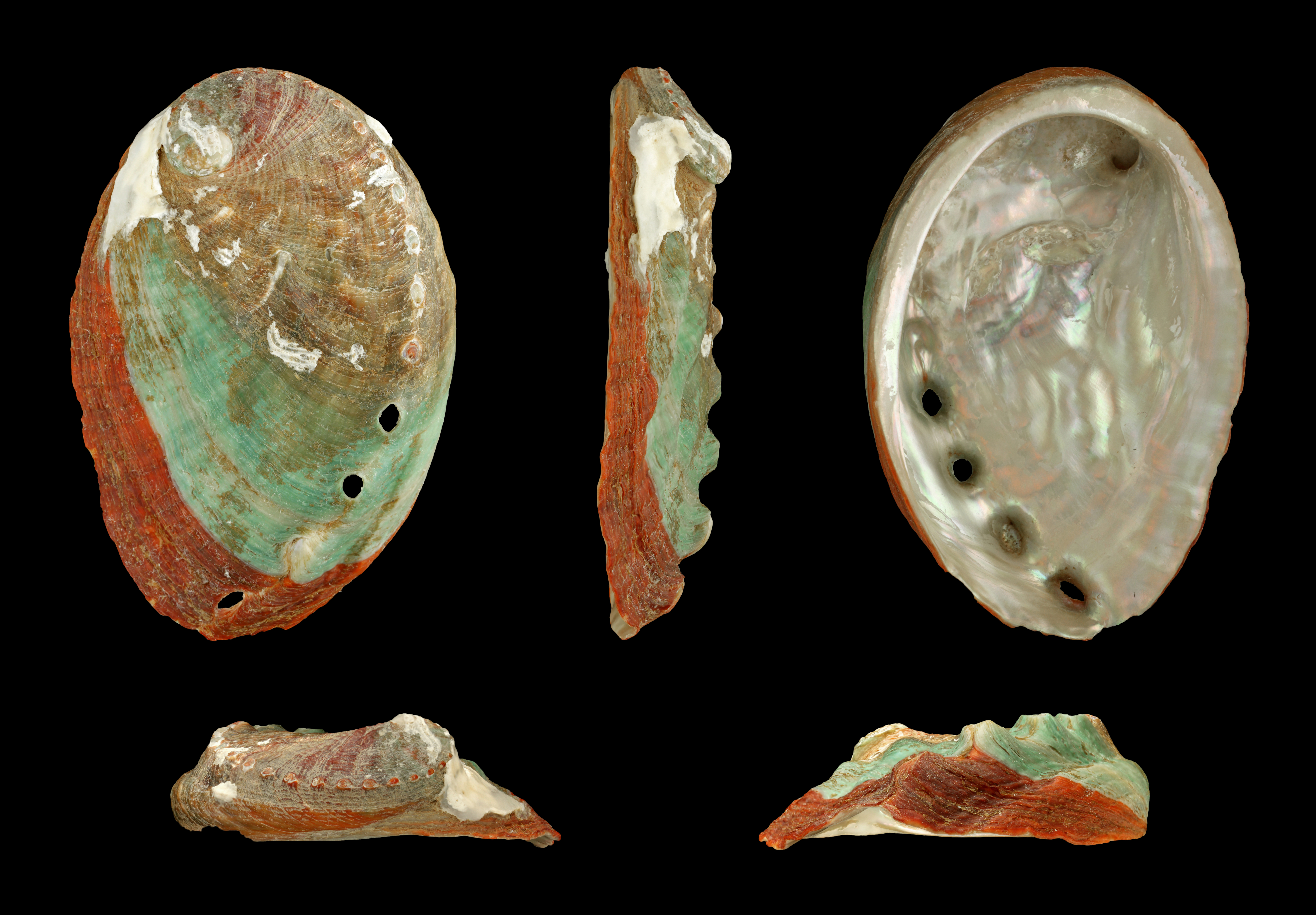 Haliotis discus hannai Iino, 1952, Ezo Abalone; Length 5.5 cm; Originating from Japan; Shell of own collection, therefore not geocoded. Dorsal, lateral (right side), ventral, back, and front view.